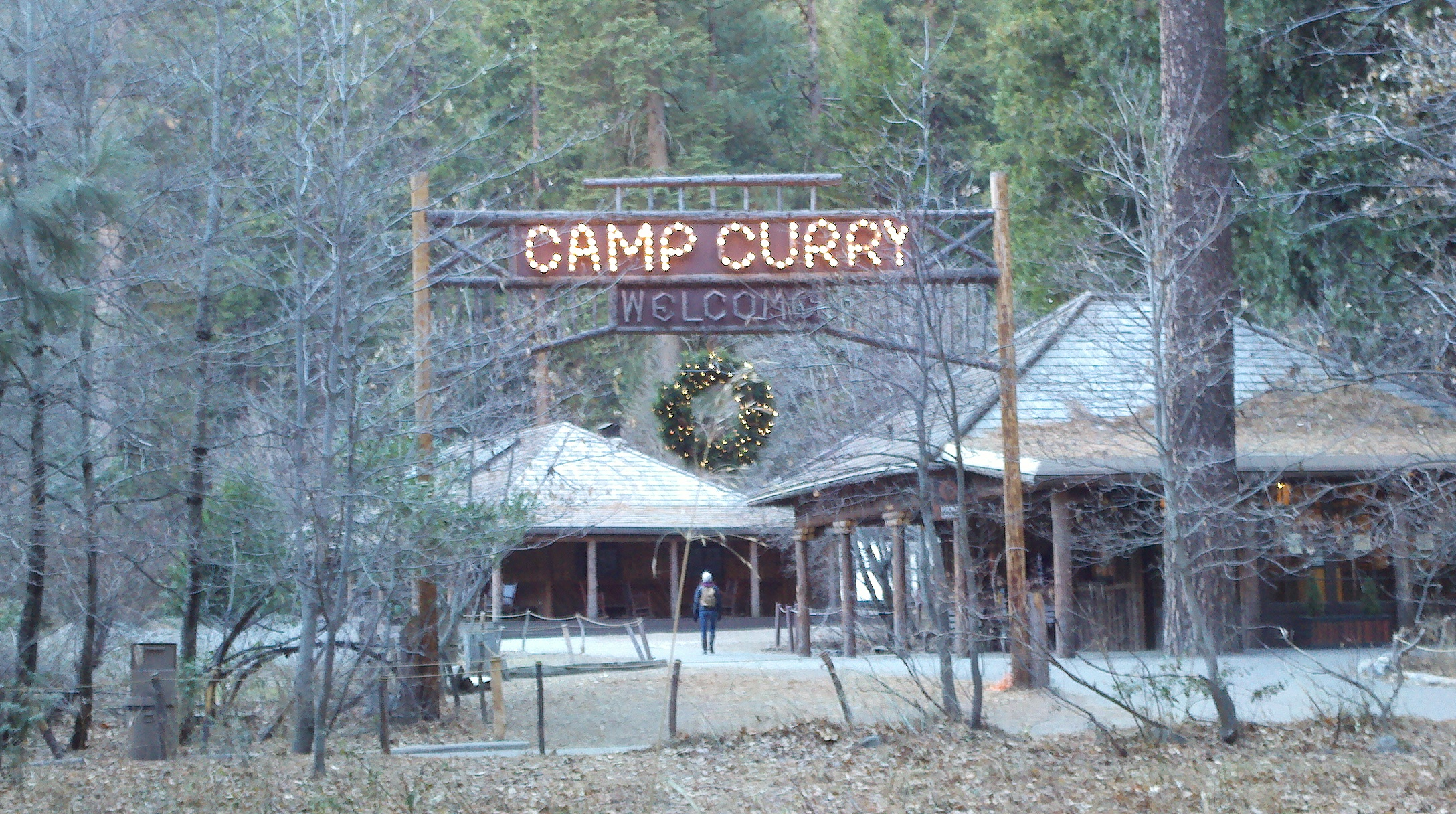 The entrance to Camp Curry in Yosemite Valley